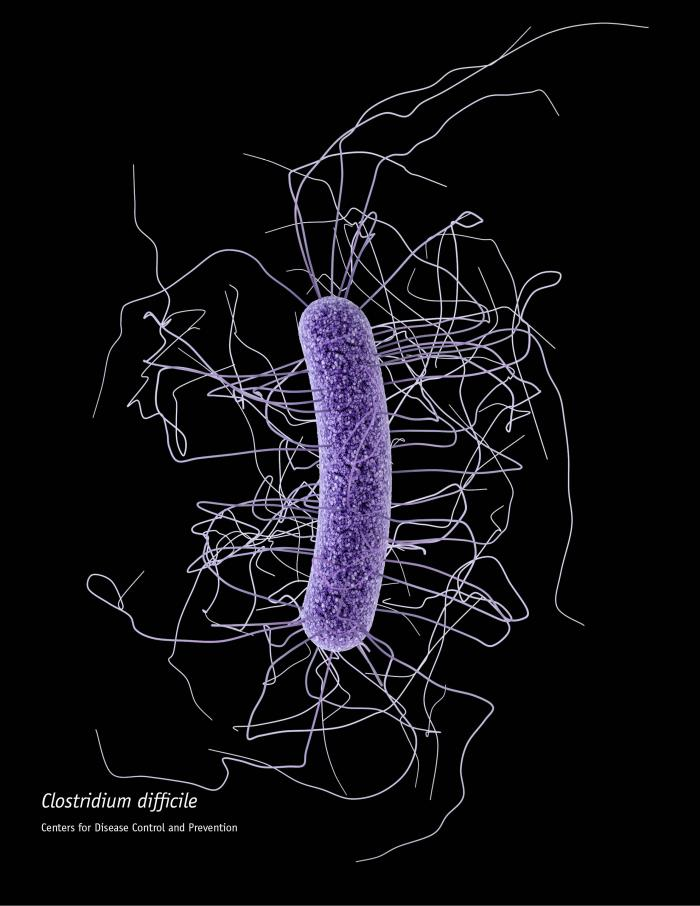 Clostridium difficile